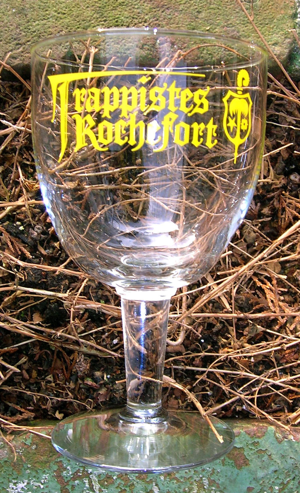 Glass of 'Trappiste Rocheforte' Belgian beer. Own work.